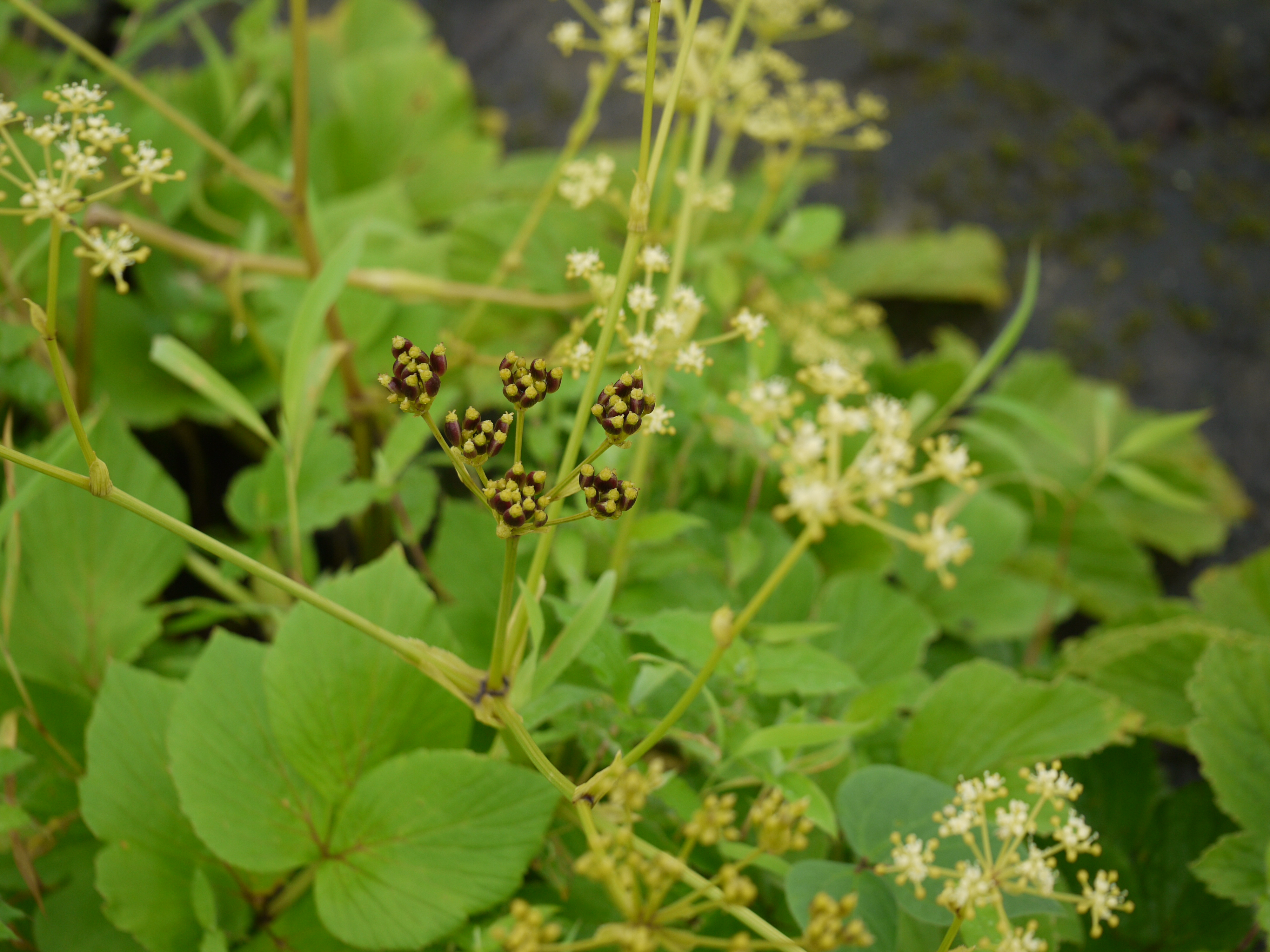 Apiaceae (carrot, umbellifer family) » Peucedanum grande C. B. Clarke pew-SED-an-um -- from the Greek peukedanon, meaning hog's fennel or parsnips GRAN-dee or GRAN-day -- large, spectacular commonly known as: wild carrot • Gujarati: બાફલી baaphali • Hindi: डुकू duku • Marathi: बाफळी baphali • Persian: دوقو duqu Distribution: Europe, n-e Africa, Iran, India References: Flowers of India • Drug Information System • ENVIS - FRLHT